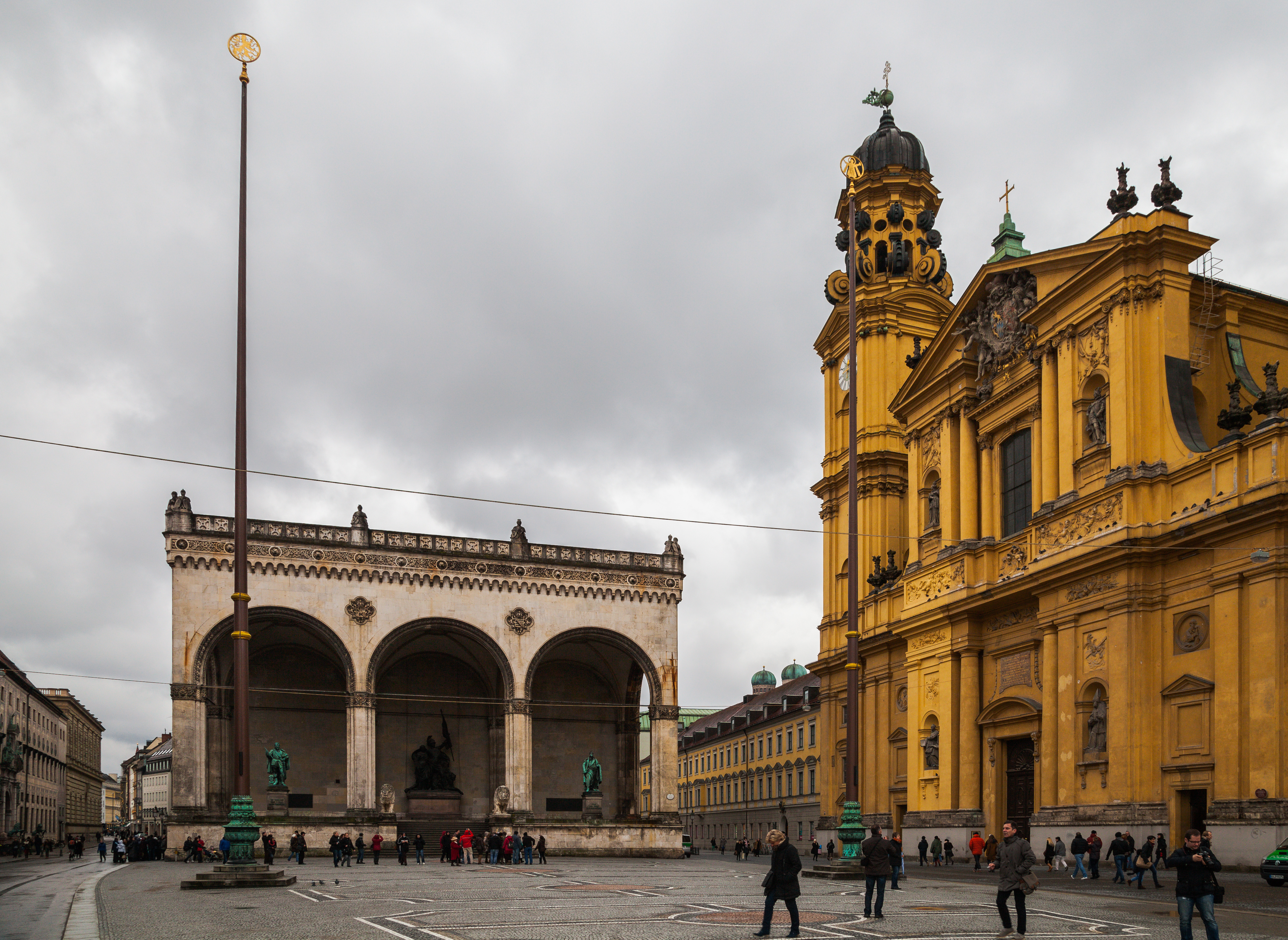 Odeonsplatz, Munich, Germany